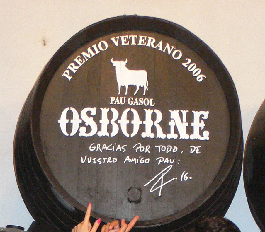 Sherry barrel signed by Pau Gasol in Andalusia (Spain)